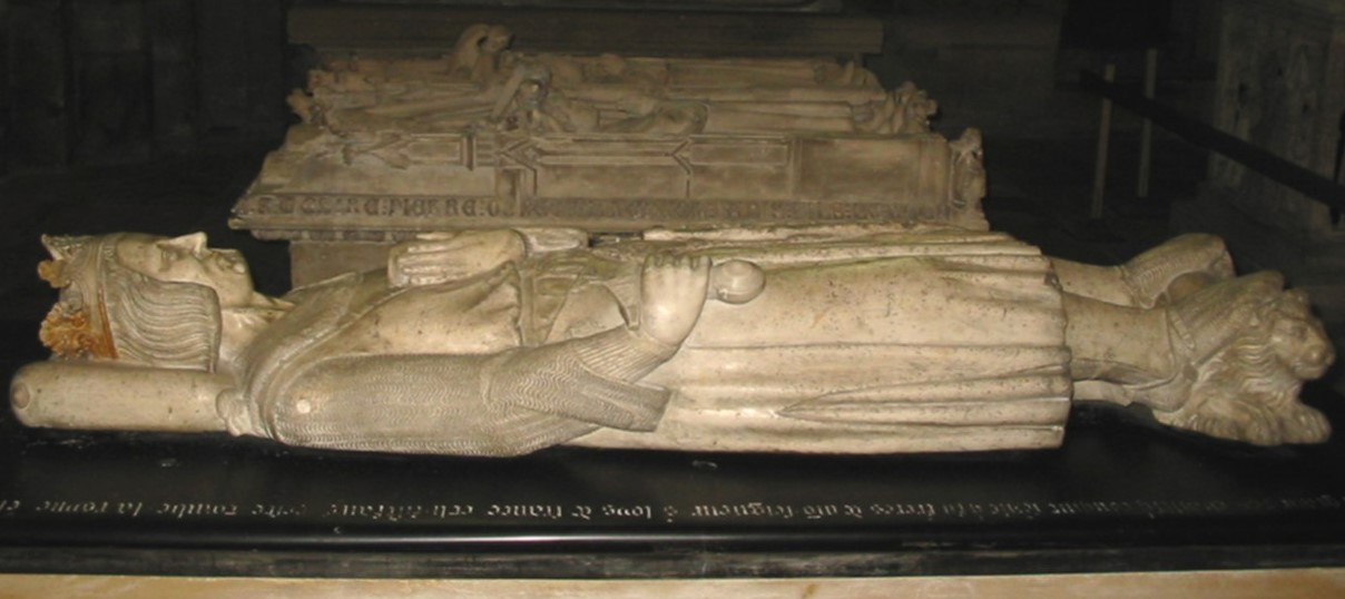 Charles I of Naples (or Anjou), Basilique Saint-Denis. Note he holds his heart in his left hand.